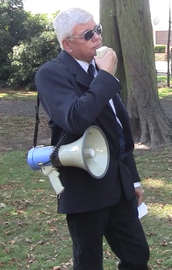 This is a photo of Jim Saleam, an Australian nationalist and political candidate. He's holding a megaphone.